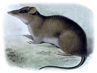 Rhynchomys soricoides